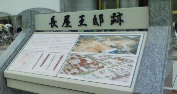 Site of Prince Nagaya's home, in the city of Nara. Nagaya's home was found at the construction site of what is today a supermarket.